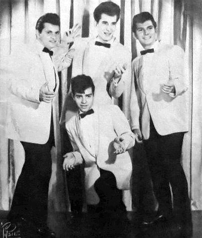 Photo of the vocal group, The Earls.